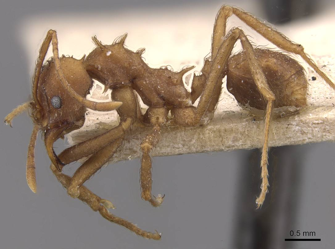 Profile view of ant Acromyrmex subterraneus specimen casent0909426. Syntype in Forel's collection.